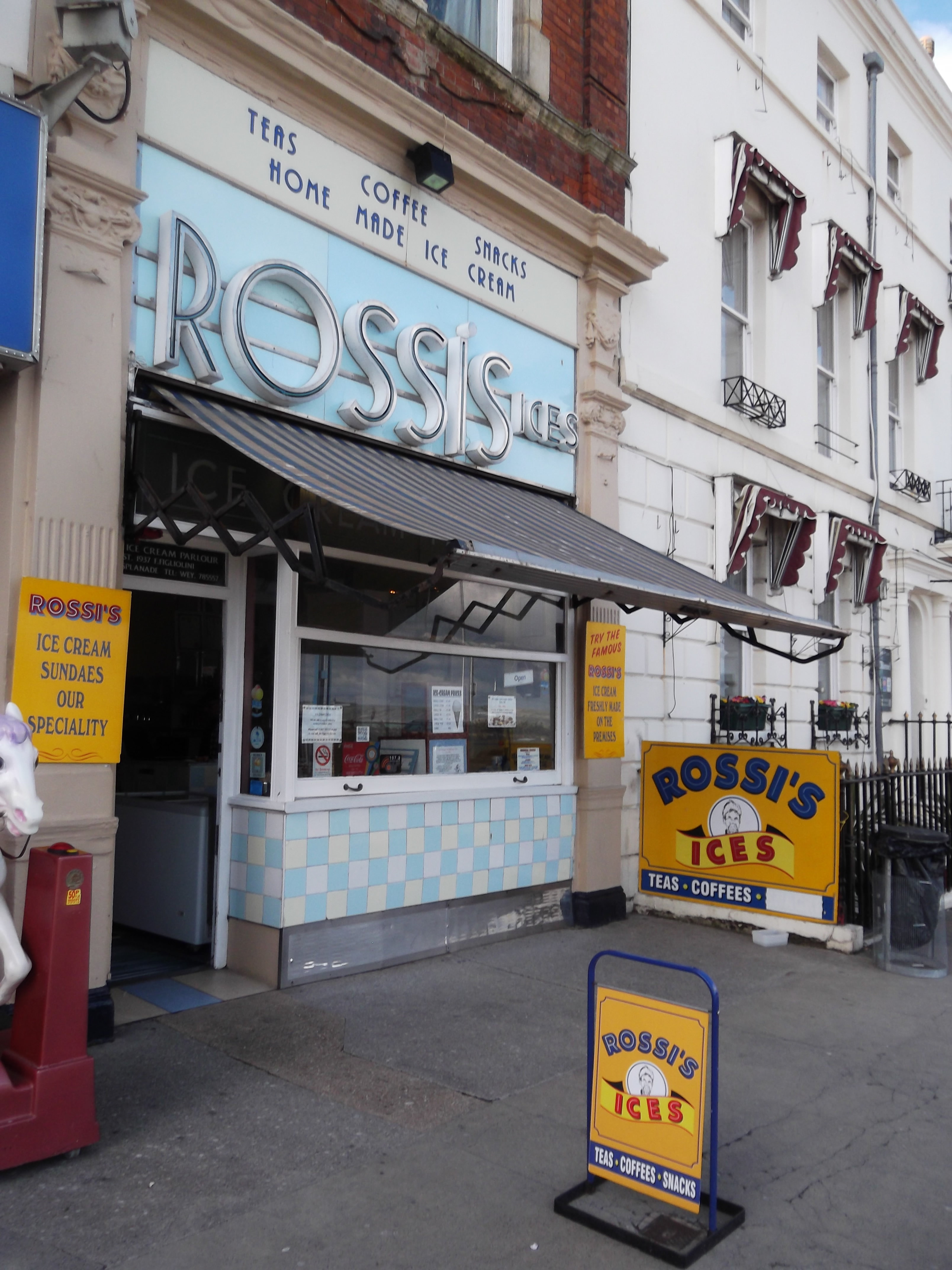 Rossi's Ices in Weymouth, Dorset, England.